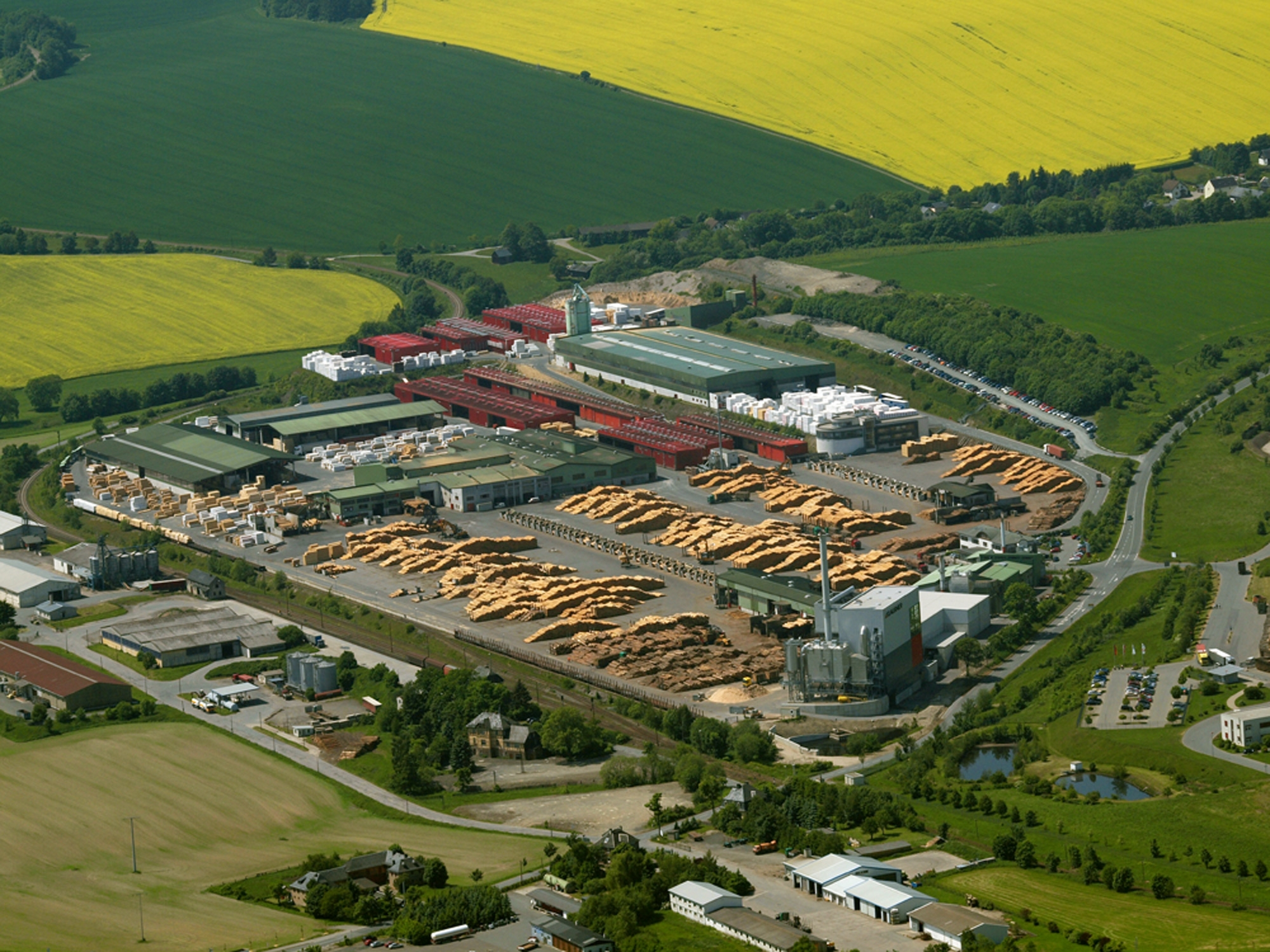 Klausner Holz Thüringen